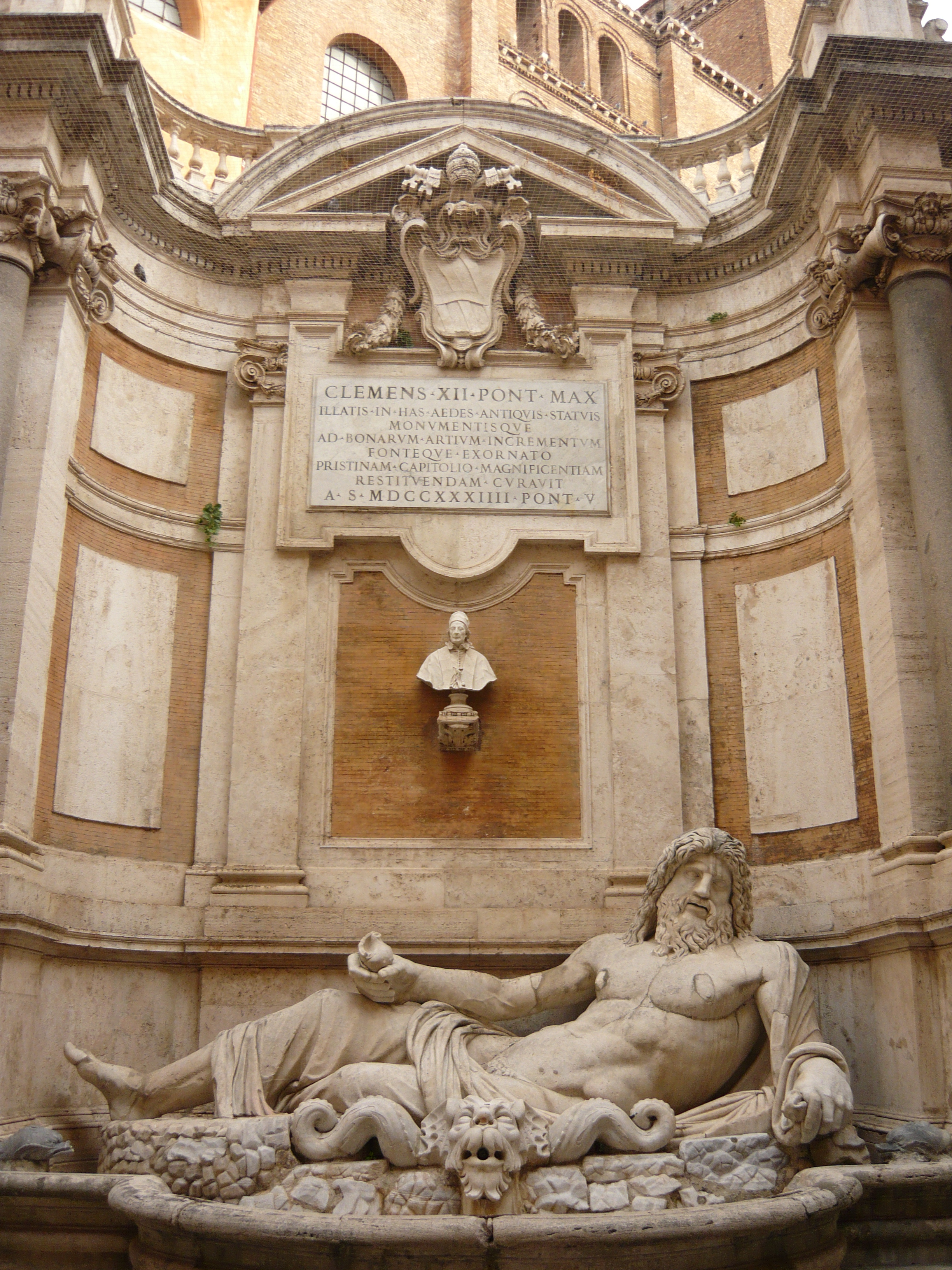 Statue of the sea god an inner courtyard of Musei Capitolini, Rome